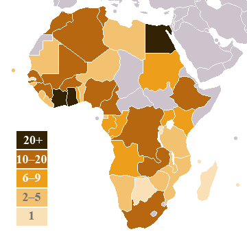 Africa Cup of Nations participants colored by the number of appearances in final tournaments